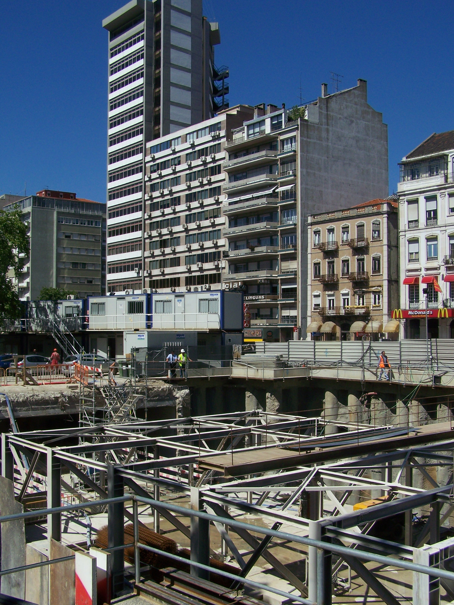 construction of the metro station Saldanha (II) in Lisbon, Portugal